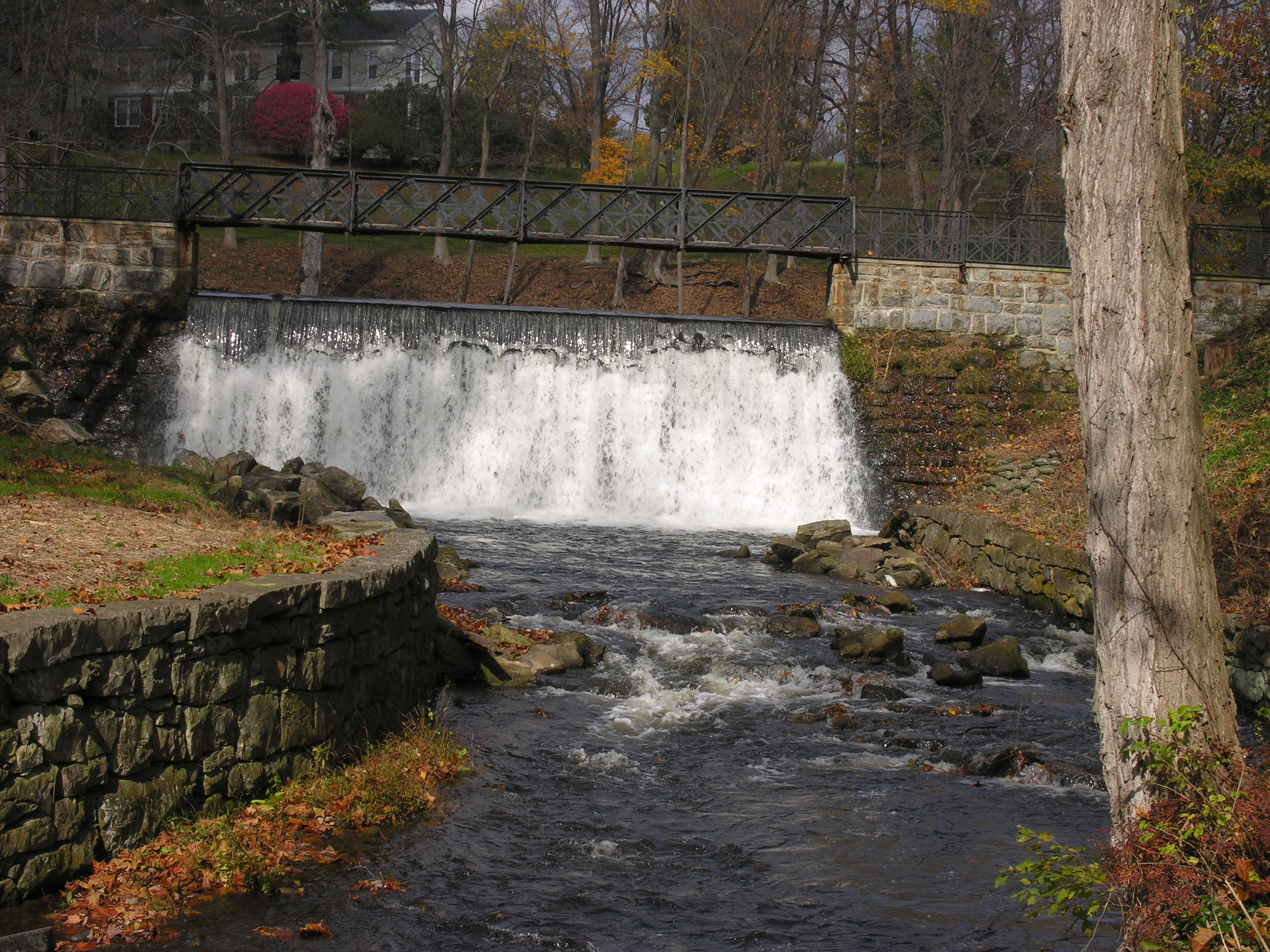 Blairstown Lake and Dam.